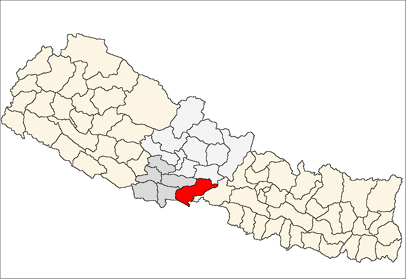 FrenchCarte de localisation dudistrict de Nawalparasi(wp-FR),au Népal (wp-FR).EnglishLocation map ofNawalparasi District(wp-EN),in Nepal (wp-EN).